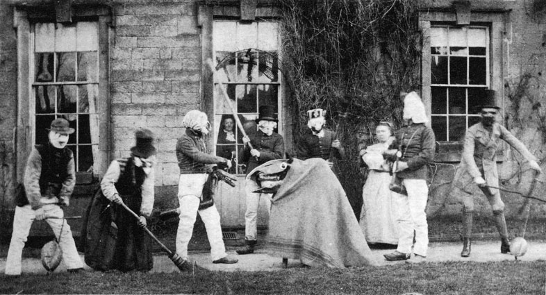 A most unusual group of masked mummers or guisers performing outside Winster Hall, Derbyshire, England, circa 1870, with three hobby horses (one of the "mast" type, made with a painted horse skull; the two others are of unusual construction). One performer, in a long dress, is sweeping with a besom broom; two others (extreme left and right) are playing bladder and string.